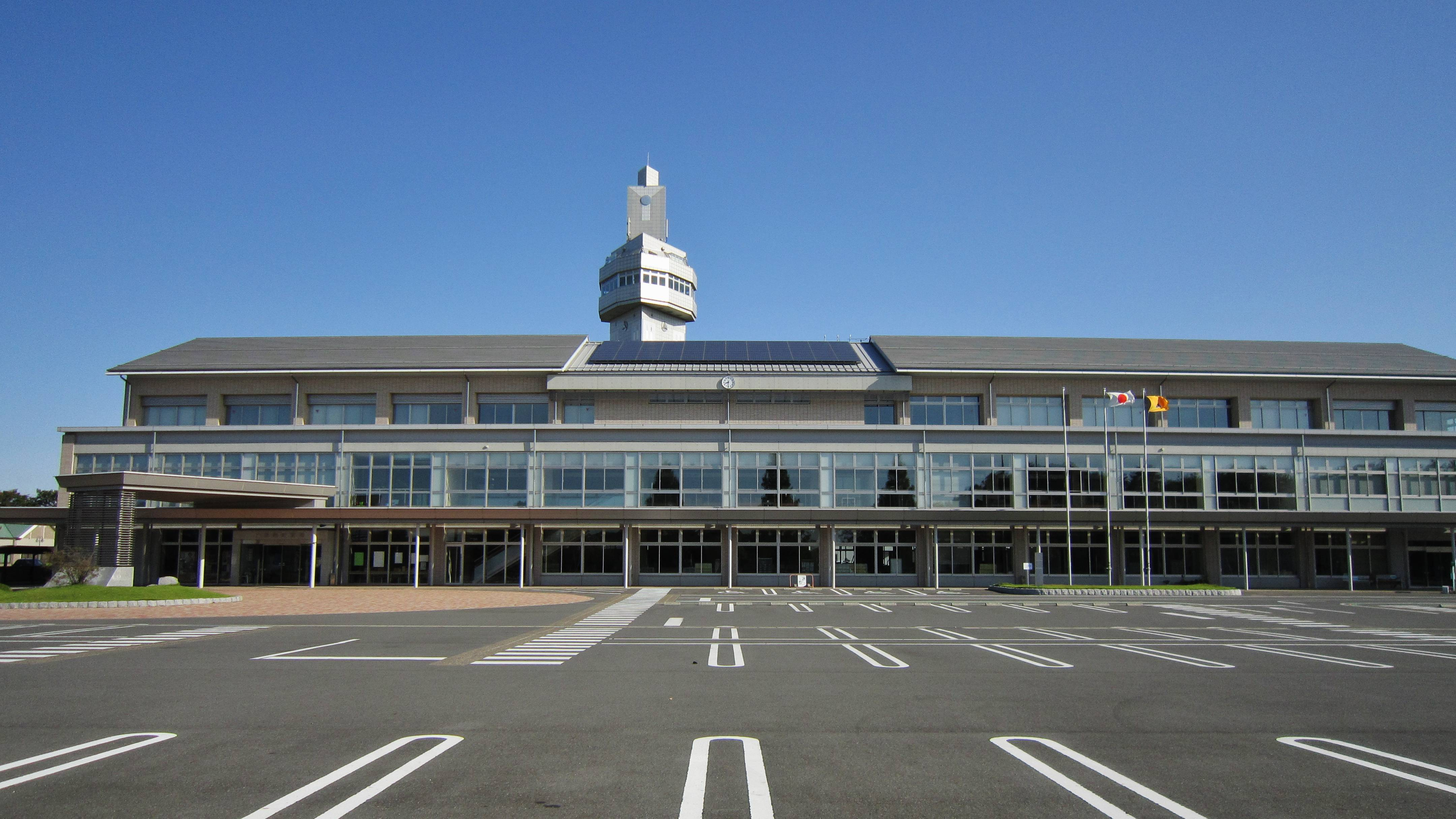 Ora town office.